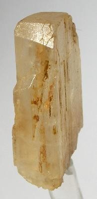 Hambergite Locality: Himalaya Mine (Himalaya pegmatite; Himalaya dikes), Gem Hill, Mesa Grande District, San Diego County, California, USA (Locality at ) Very nice example of a hard-to-find species in good crystals, since they tend to etch or dissolve away and leave you without euhedral and 3-dimensional crystals often enough. THIS ONE, however, has sharp faces and a real termination! This tabular crystal is sharp, has good luster, and is partially gemmy. As good a Hambergite as you are likely to find from any locality, particularly from this mine. 1.5 x .8 x .5 cm